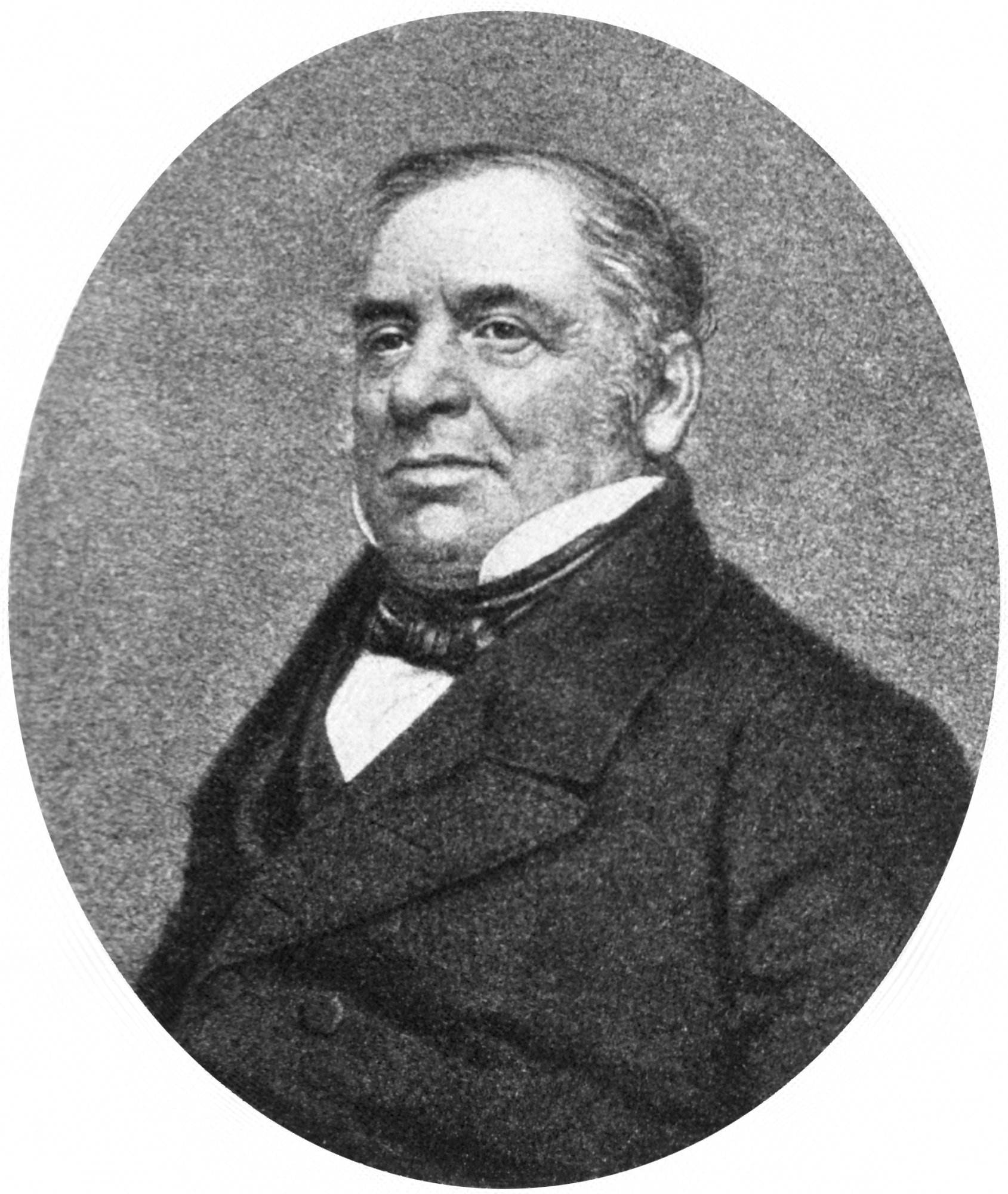 Johann Lukas Schönlein (30 November 1793 – 23 January 1864)